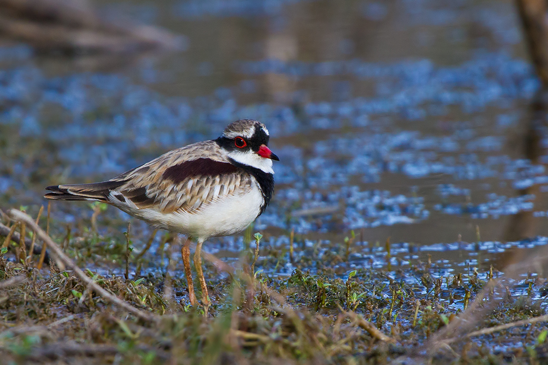 Crusoe Reservoir, Kangaroo Flat Vic.